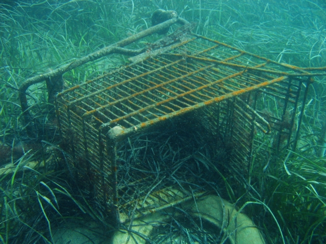 Shopping Trolley lying six meters below the surface near the Tanker Jetty, Esperance, Western Australia.